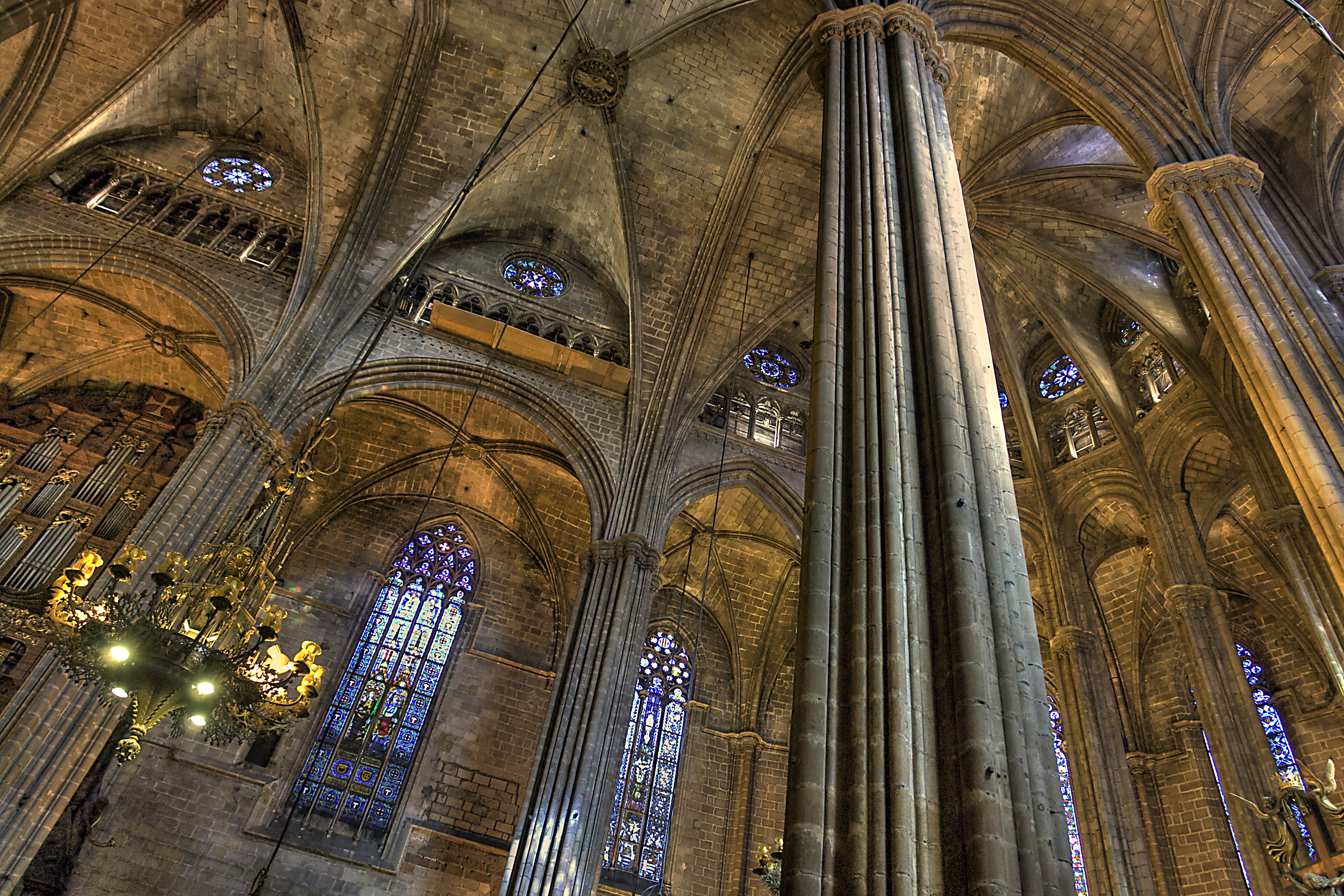 Interior of the Cathedral Santa Creu i Santa Eulàlia of Barcelona